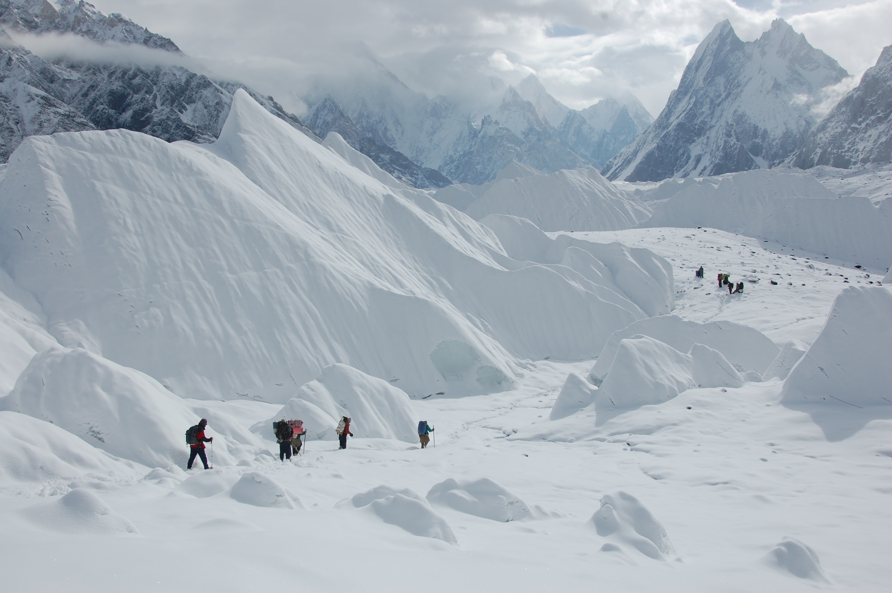 Baltoro glacier and Mitre Peak on the right, Gasherbrum group in the mist